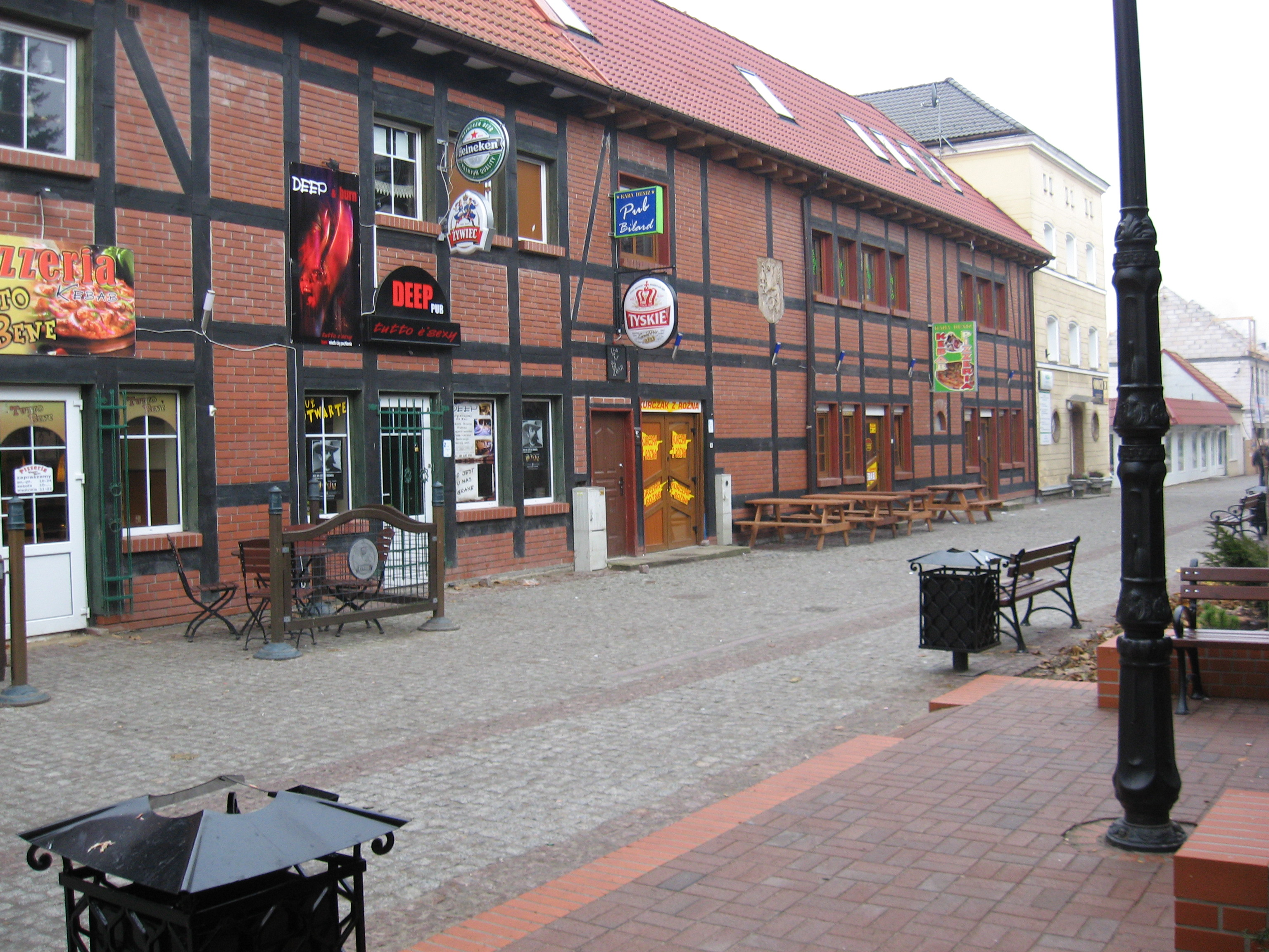 Promenade along Ruta street.